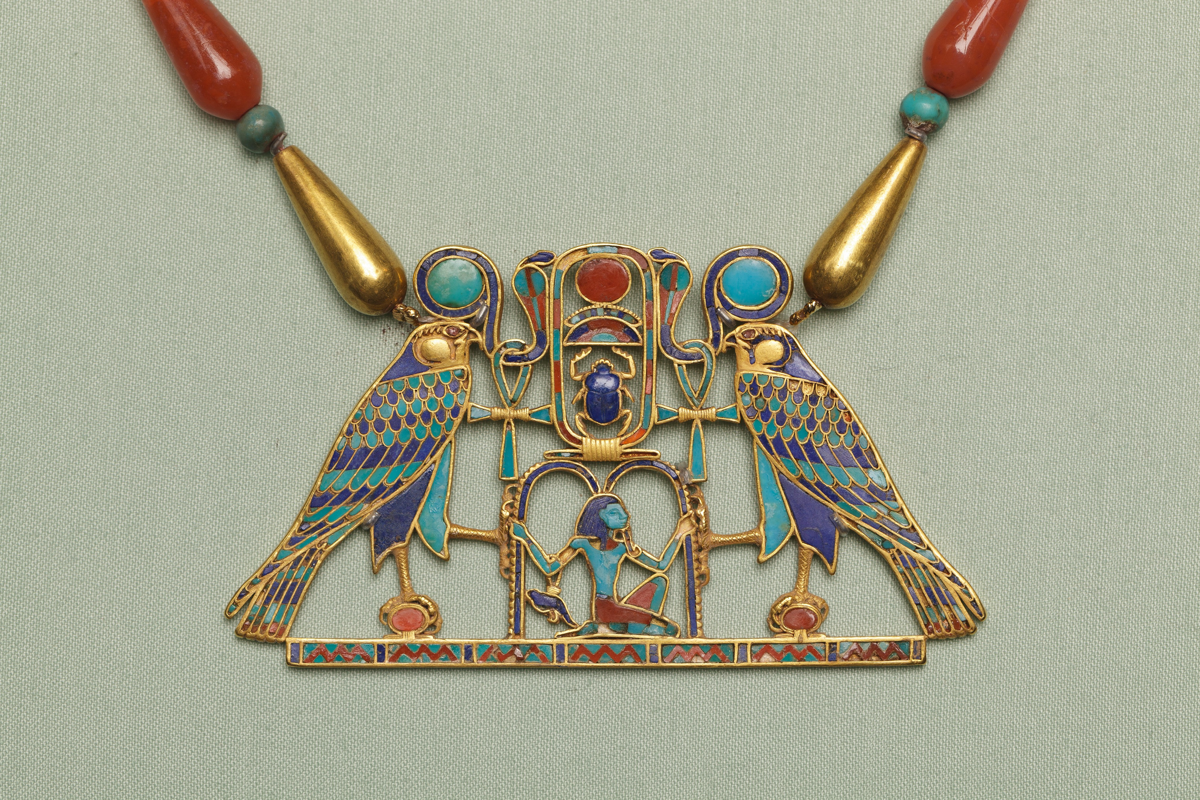 Necklace, pectoral, Sithathoryunet, Senwosret II